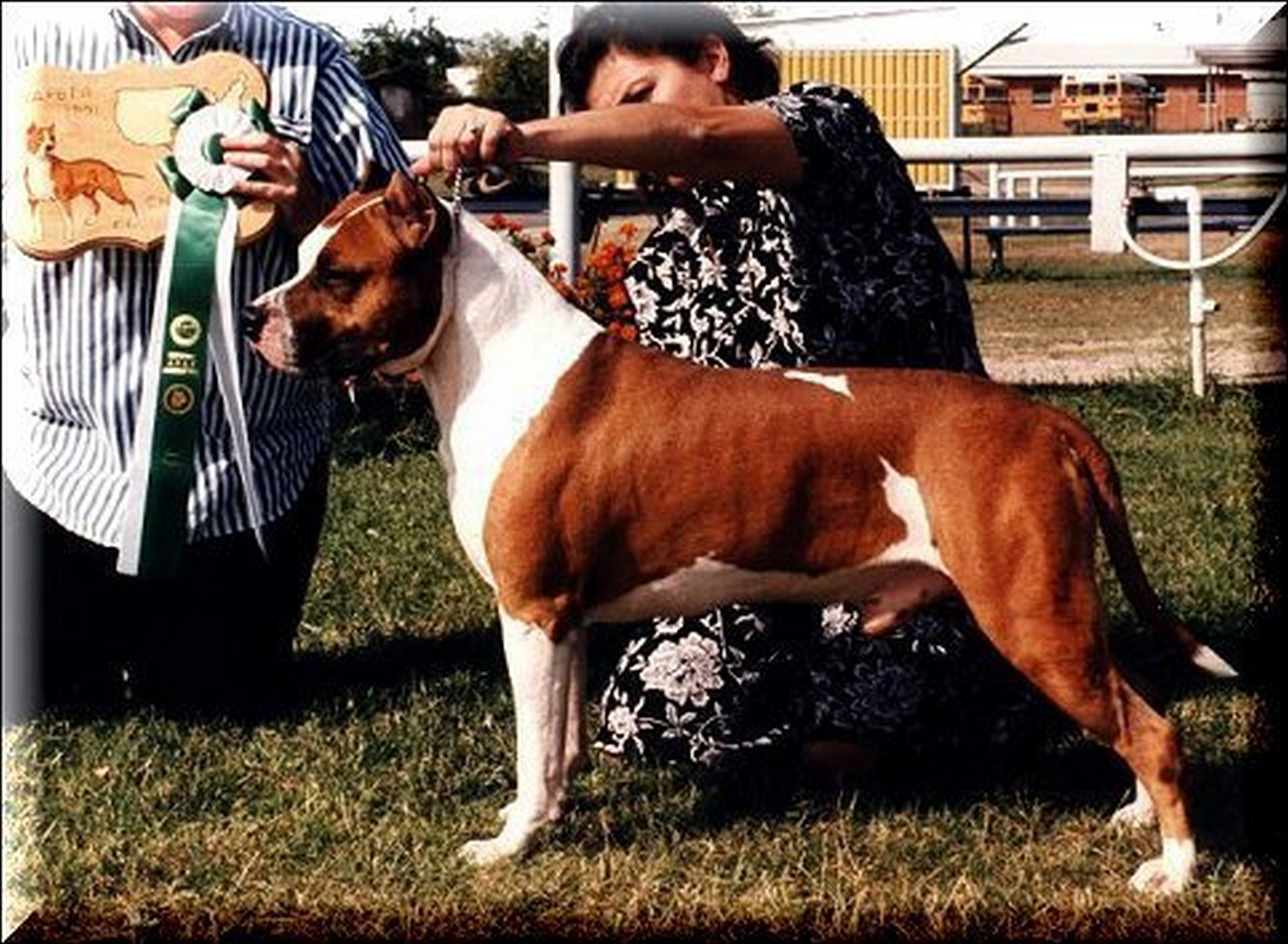 American Staffordshire Terrier, AKC Ch. , UKC Nat'l Gr. Ch., ARBA Ch. Rowdytown's Hardrock Cafe, OFA, TT, CGC, FAST VG. Bred, owned and handled by Gigi Sager, owner of Rowdytown American Staffordshire Terriers.